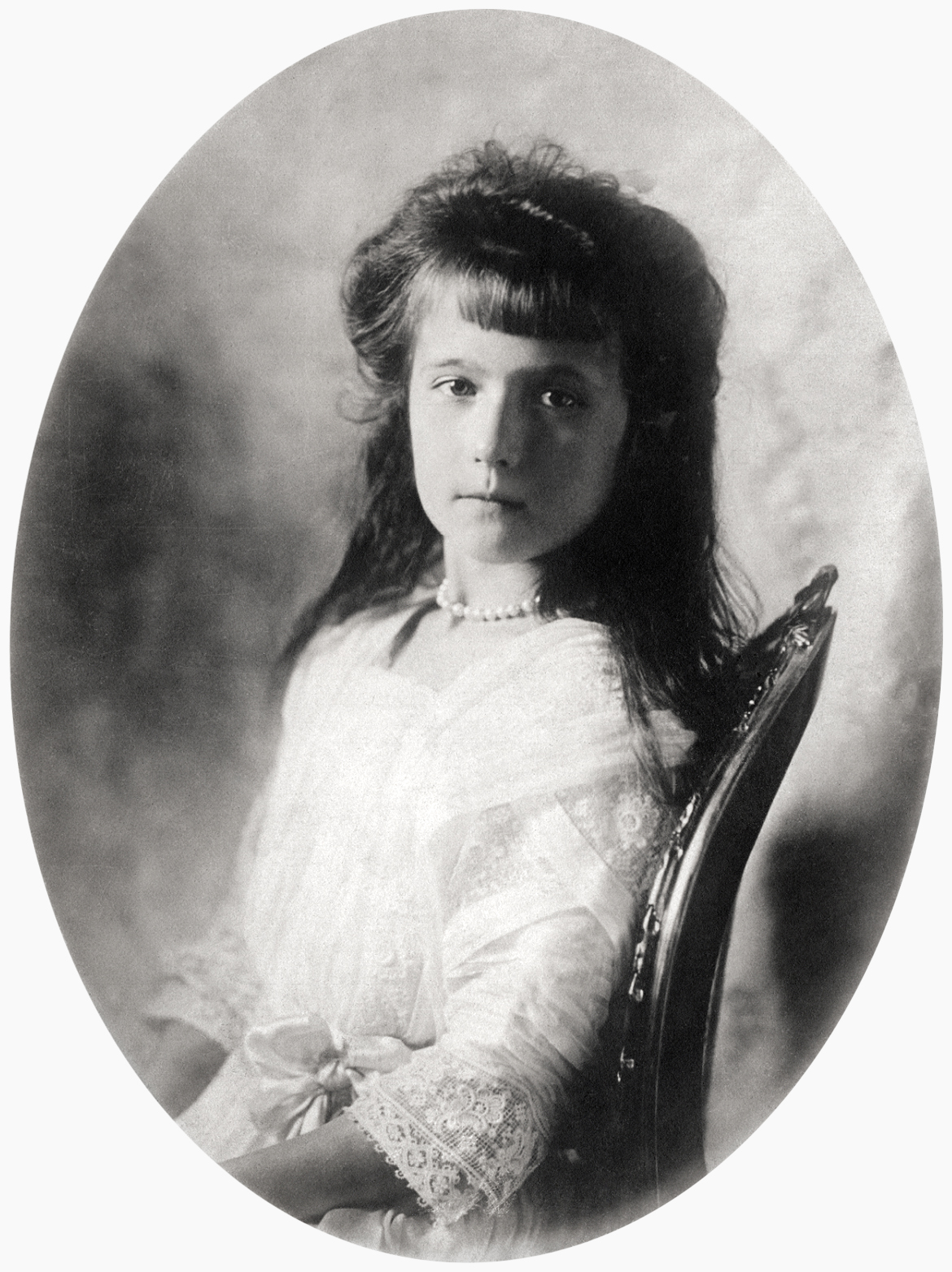 This is a formal photograph of Grand Duchess Anastasia Nikolaevna of Russia taken in 1909. It was featured on postcards prior to World War I. I uploaded it from a posting at Alexander Because of its age, I think it is most likely in the public domain.